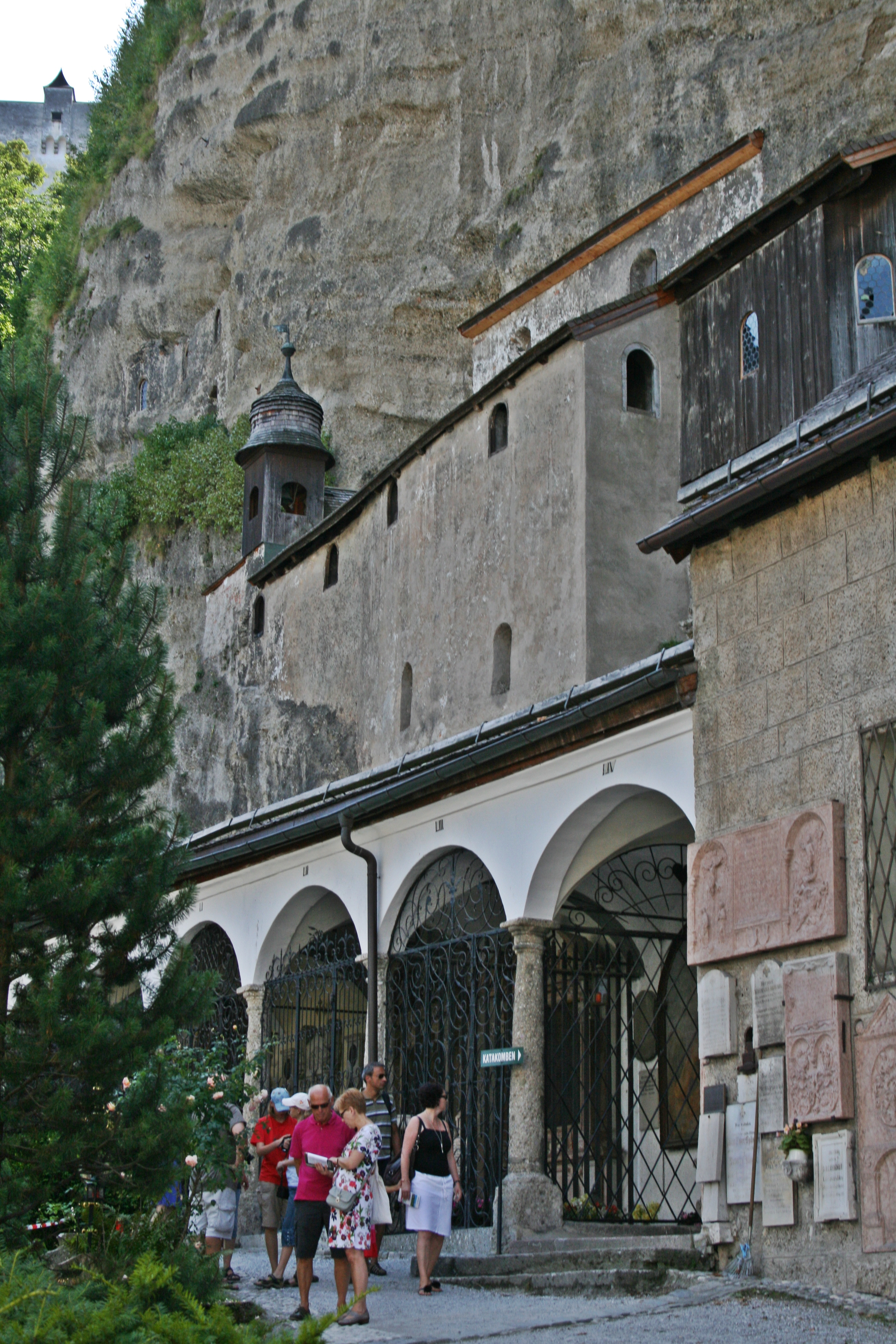 The "catacombs" above the Petersfriedhof